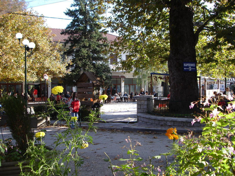 Domnista village in Evritania, Greece. User:Ilias81 stated: I took the picture, I allow any use